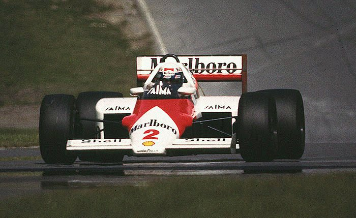 Taken at Brands Hatch,Prost in McLaren coming up Hailwood Hill towards Druids bend